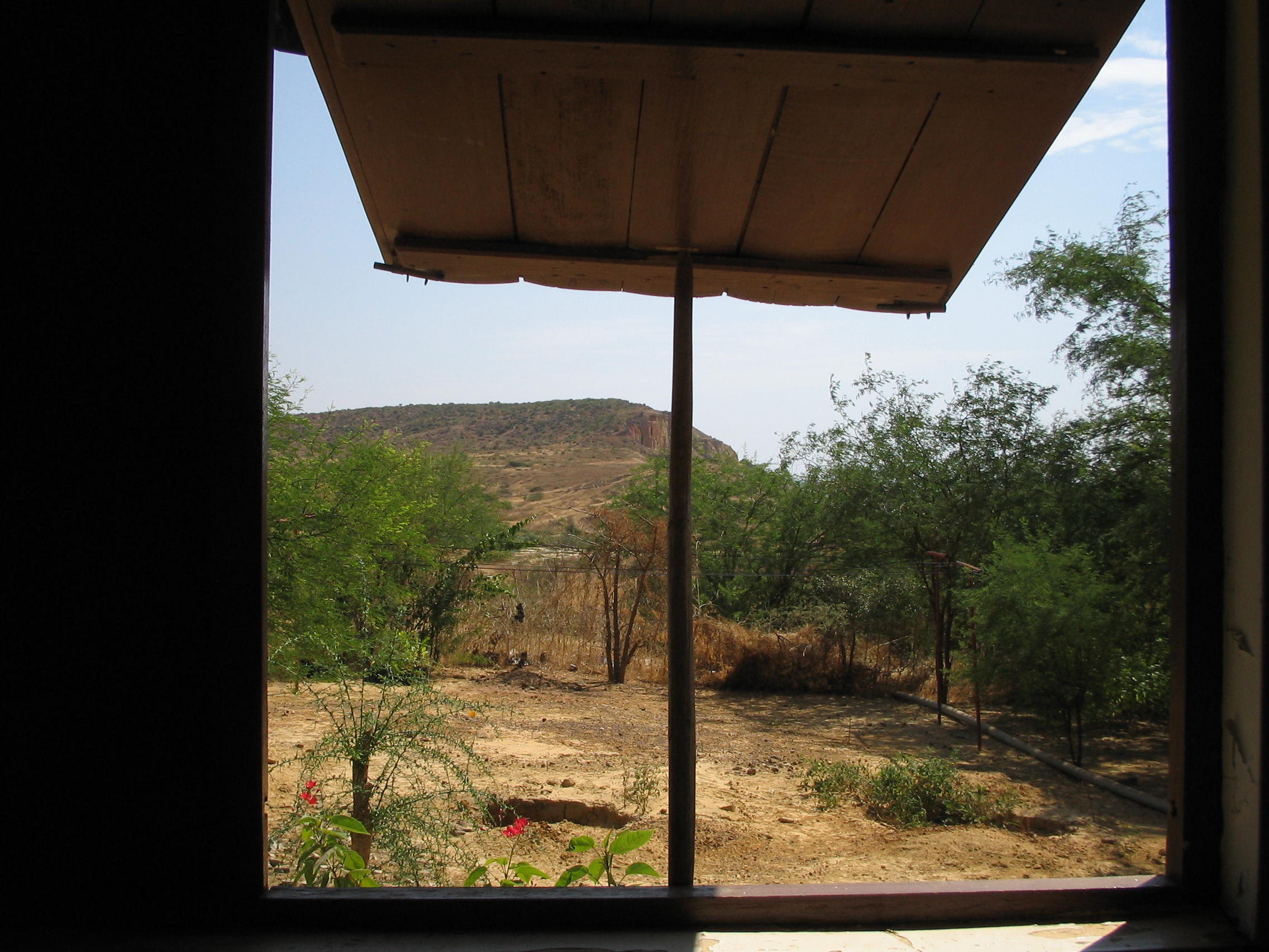 View on the game reserve and cliff of Popenguine, Senegal